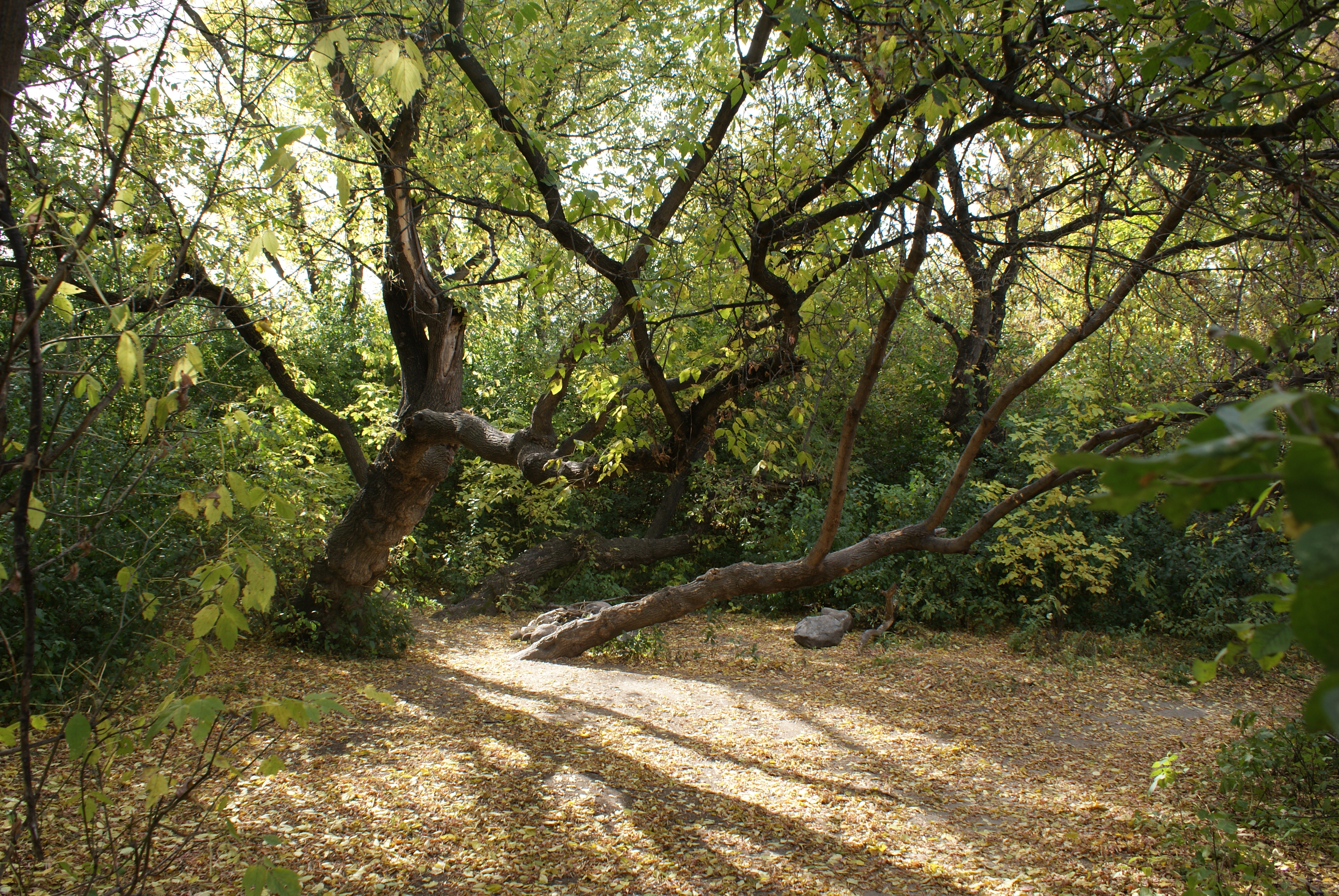 Acer negundo with gnarling in the trunk. Leaves shown at base of the tree. Found on the banks of the South Saskatchewan River in Saskatoon.